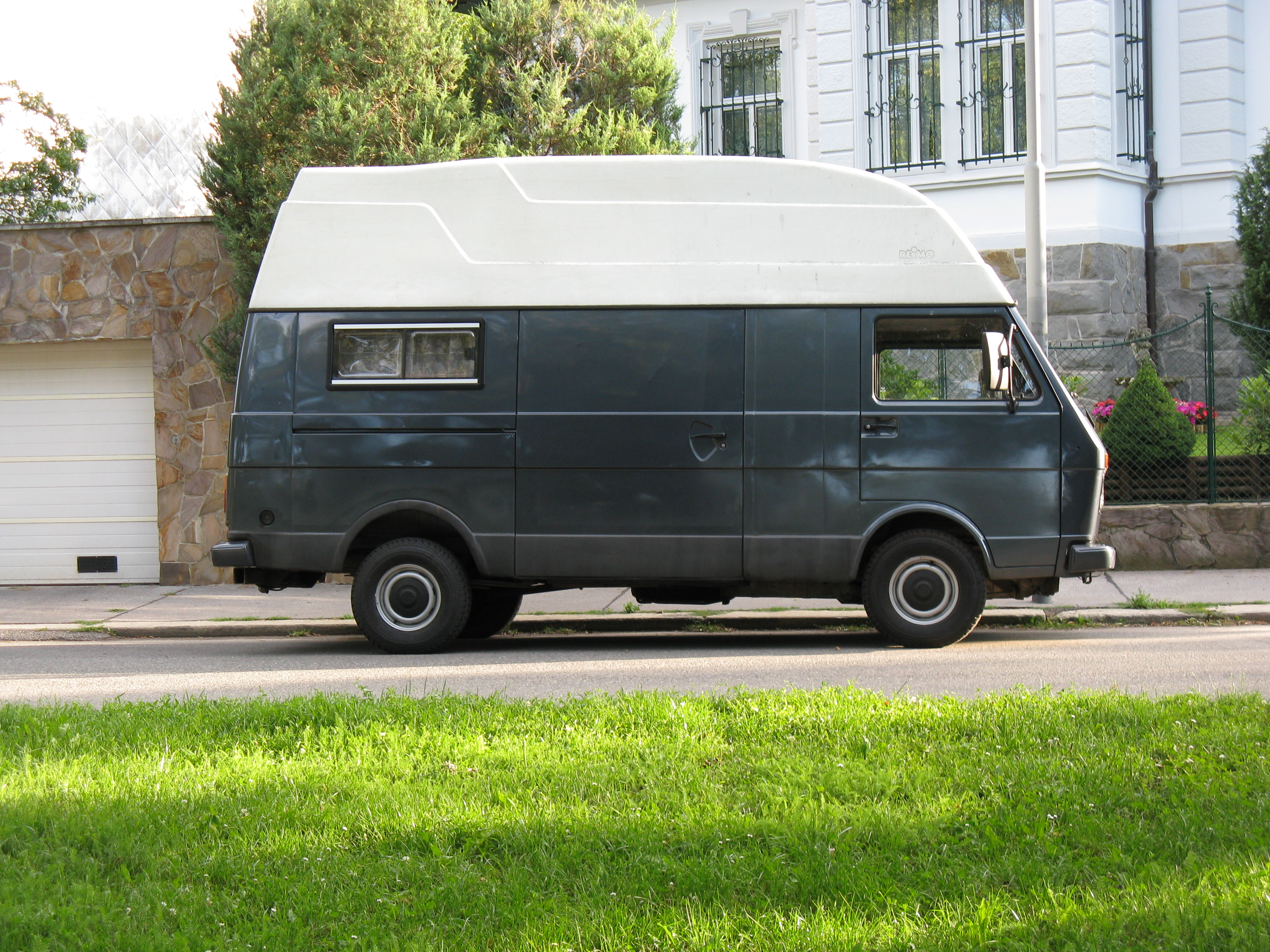 VW LT 35e 1989 1. Generation Facelift Wohnmobil Super High Roof.